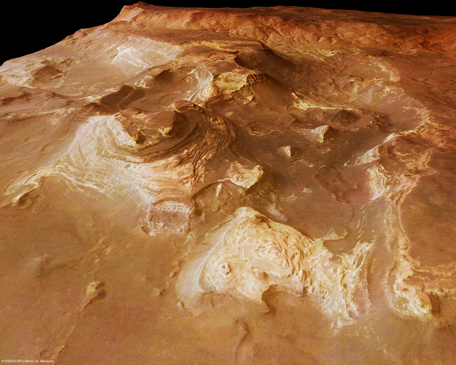 Computer-generated perspective view of Terby crater on Mars based on data from Mars Express.